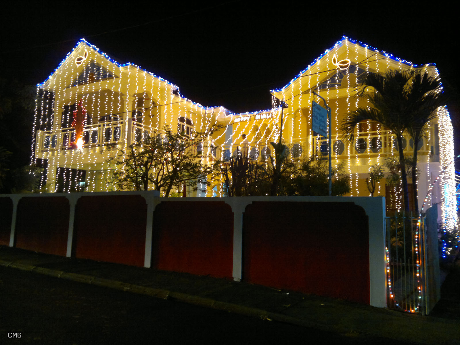 Diwali is celebrated outside of South Asia, such as in Mauritius above.